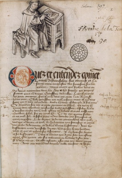 First page of ms. BNF Français 24210, showing a writer or scribe, and the first page of the Estoires d'outremer et de la naissance salehadin.